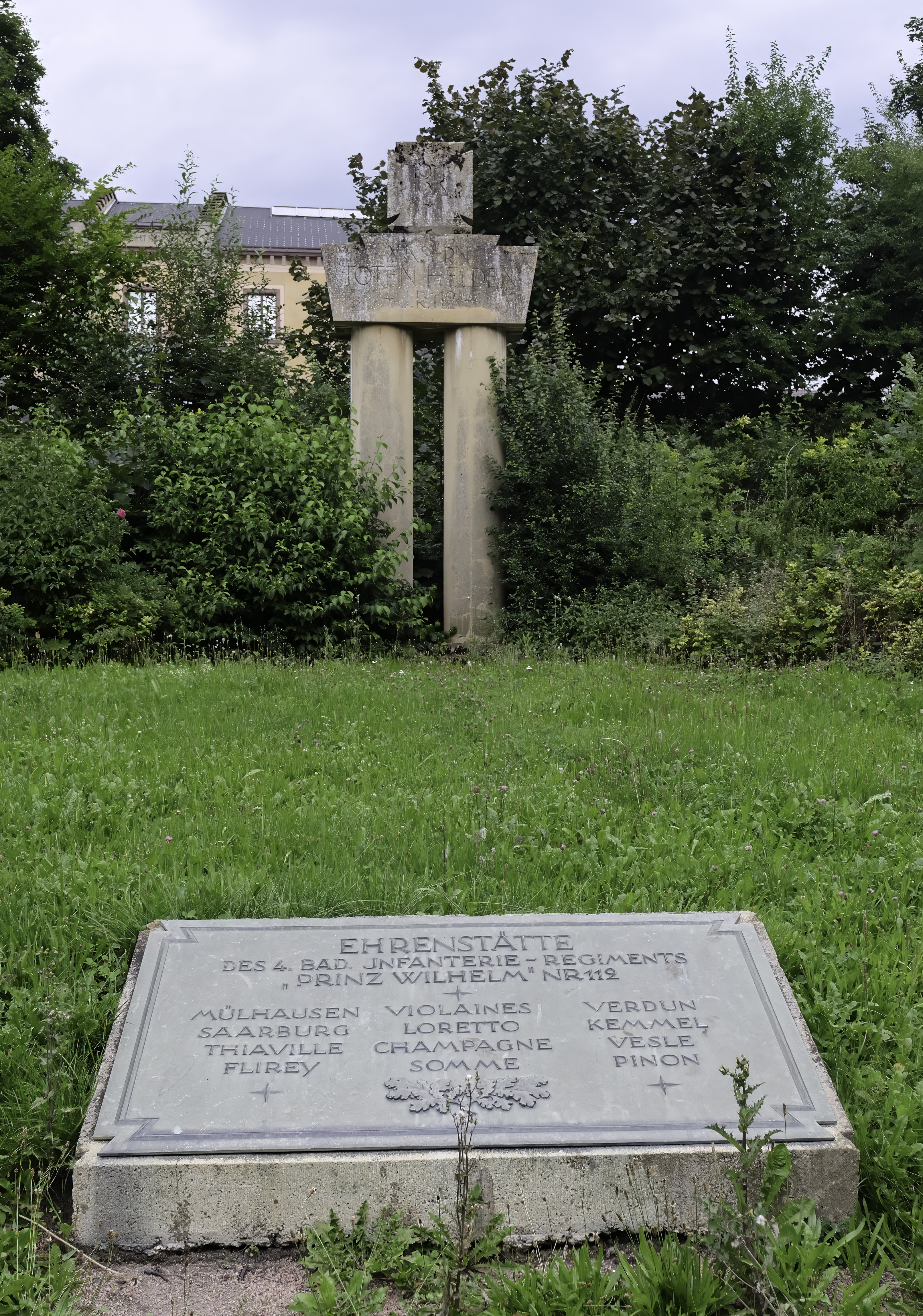 Memorial for the 4. Badischen Infanterieregiments Prinz Wilhelm Nr 112, Donaueschingen, Baden-Württemberg, Germany